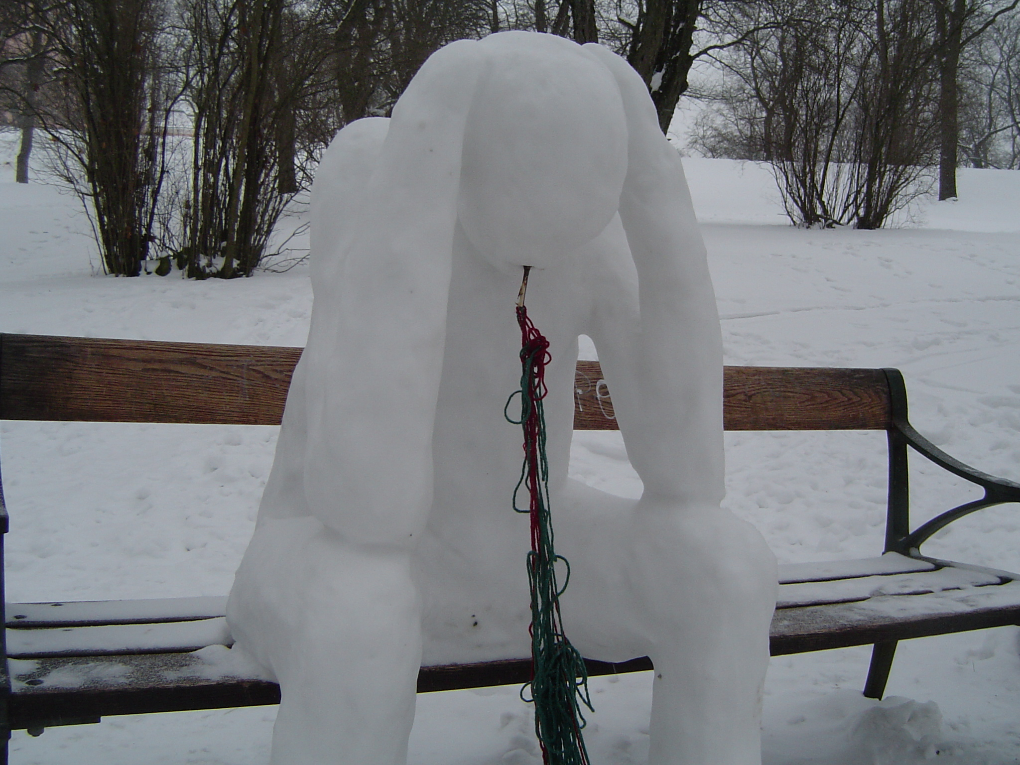 Photo:Skagedal